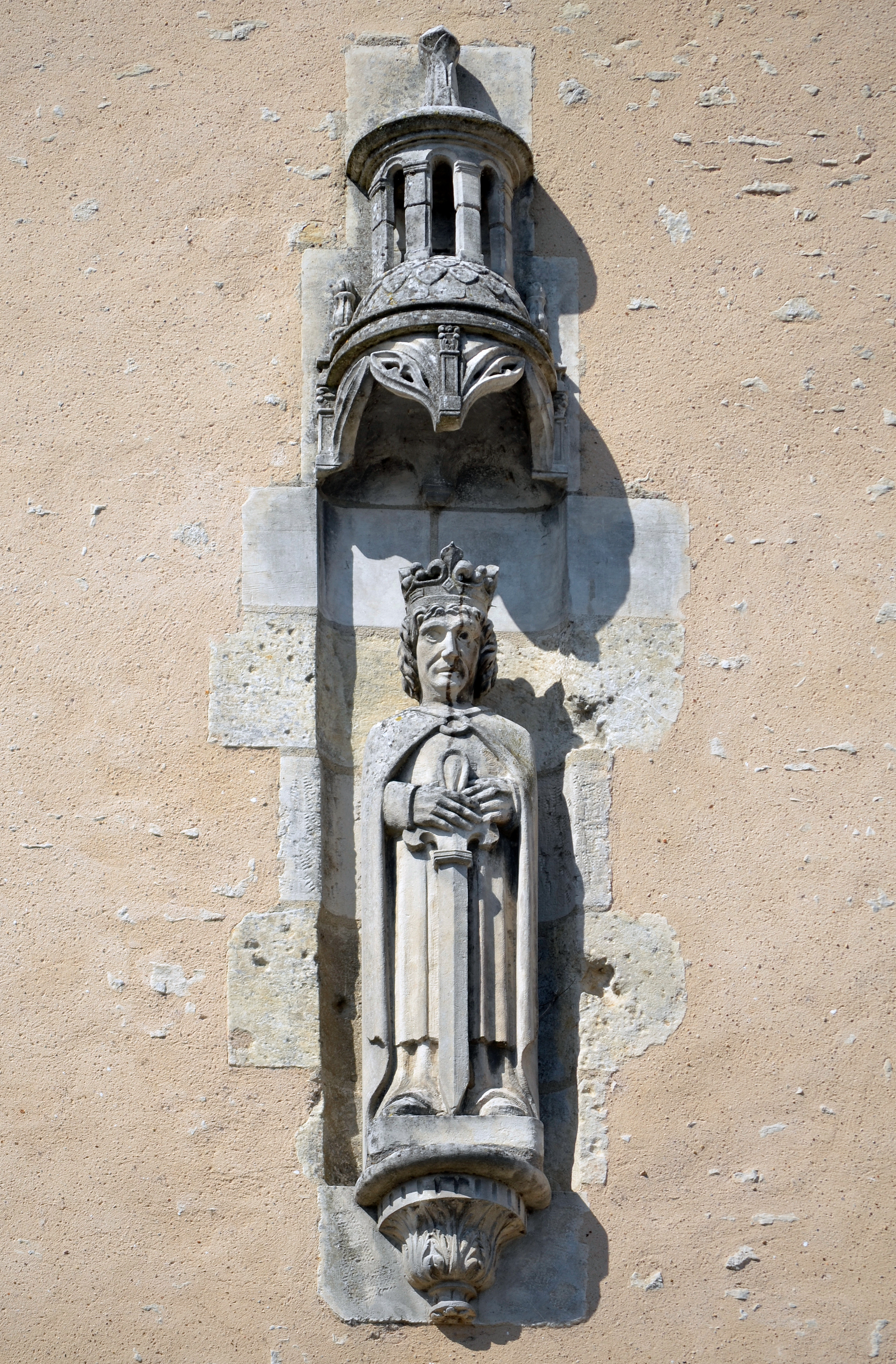 Sculpture in the main facade of an ancient covered retail market, now an exhibition building - La Ferté-Bernard, Sarthe, France .